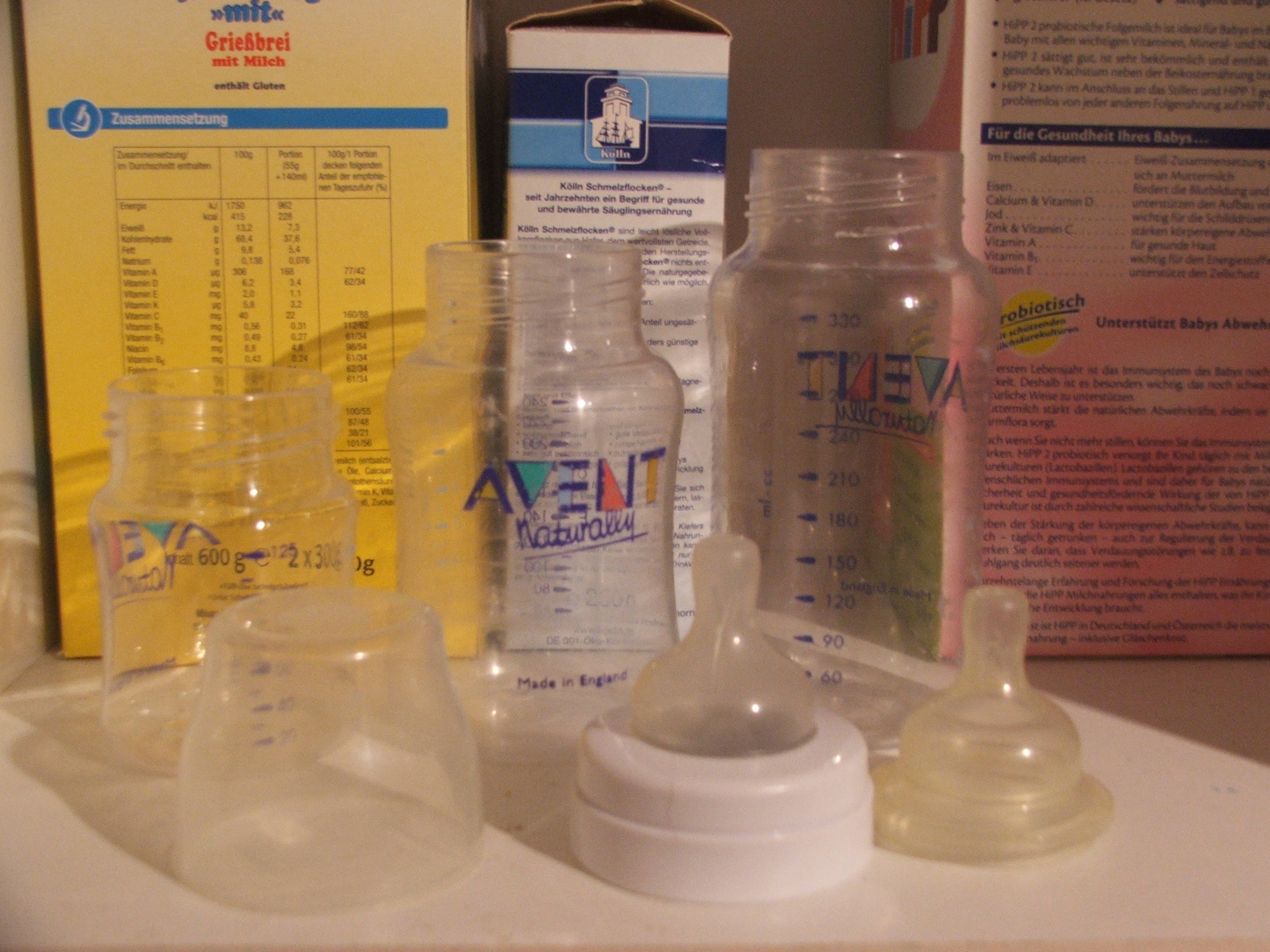 Bottles